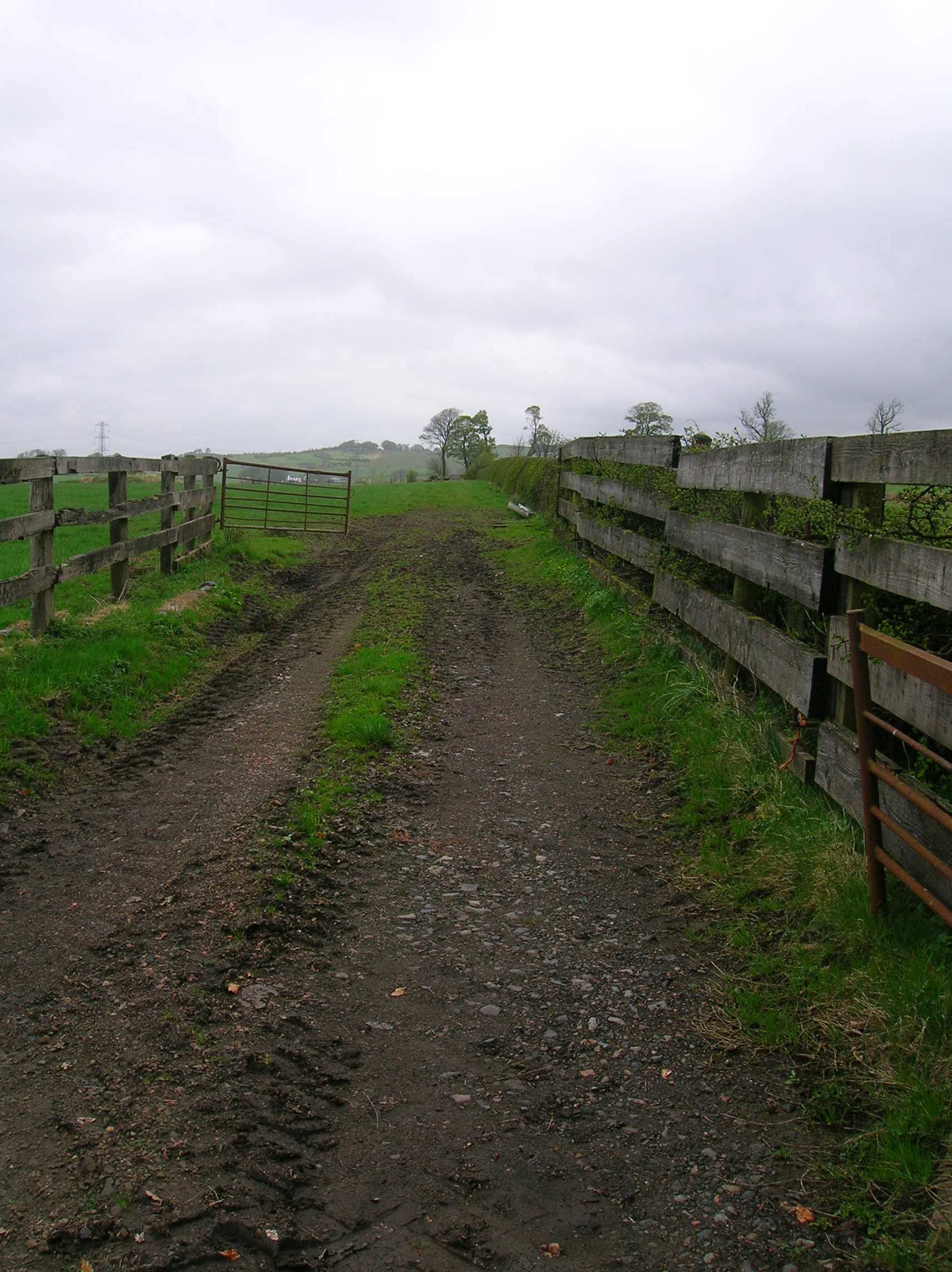 The original entrance lane to Broadstone Castle, Beith, North Ayrshire, Scotland.